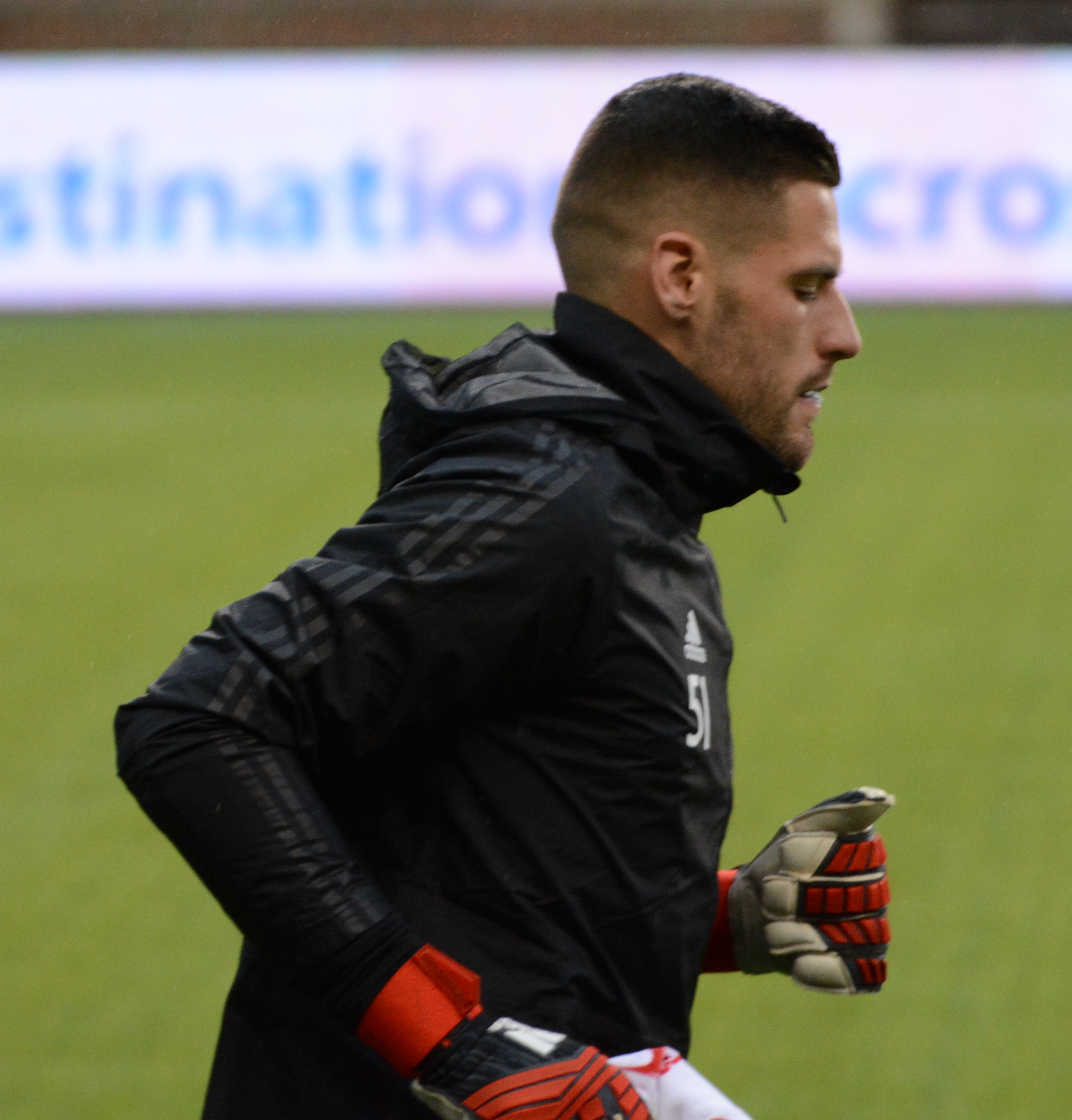 Taken during practice before a Major League Soccer regular season match between FC Cincinnati and Real Salt Lake at Nippert Stadium in Cincinnati, USA on April 19, 2019